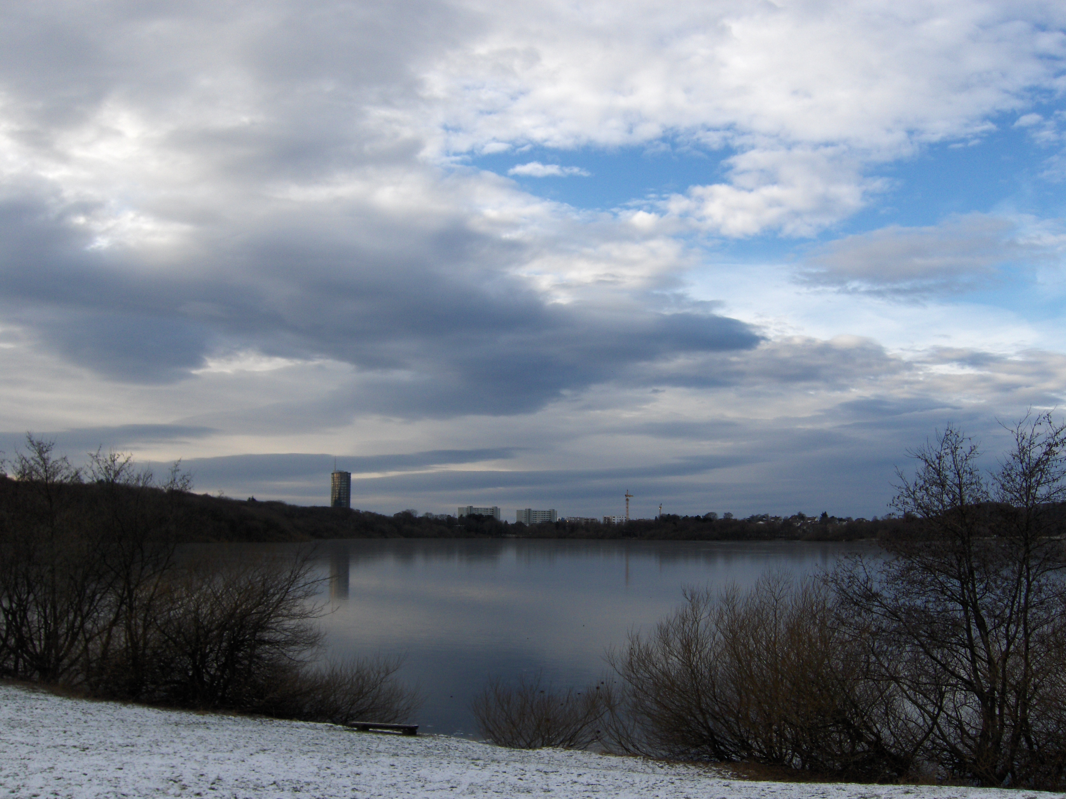 Mosvatnet during winter